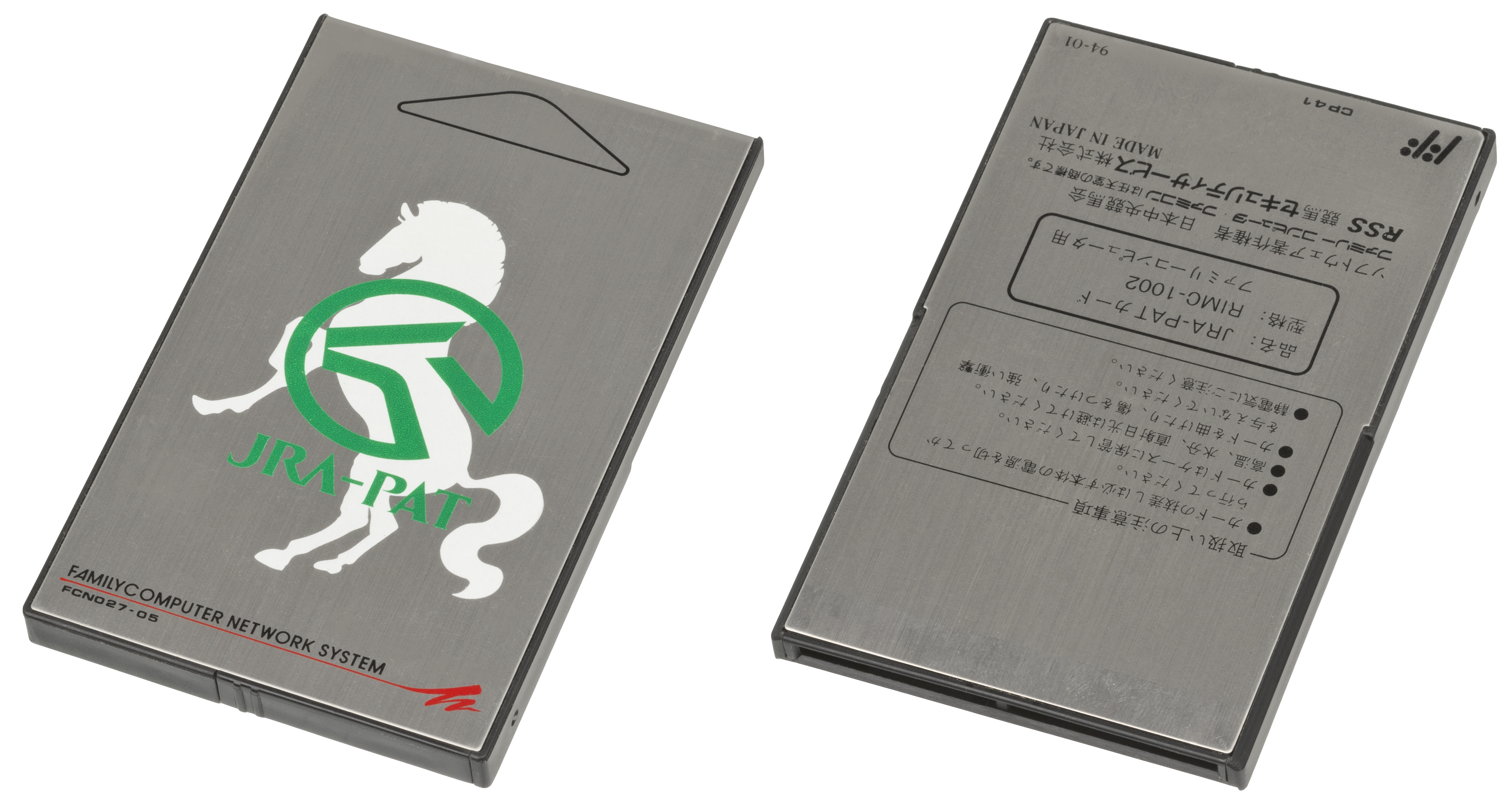 A horse-betting software card for the Nintendo Famicom Network System, a proprietary dial-up modem add-on for the Japanese Nintendo Famicom video game console. This Japanese exclusive accessory was released in 1988 and allowed users limited online abilities like horse-race betting and stock trading.